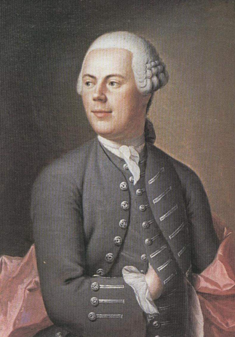 Portrait of Andreas Peter von Hesse (1728-1803), hessian politician.